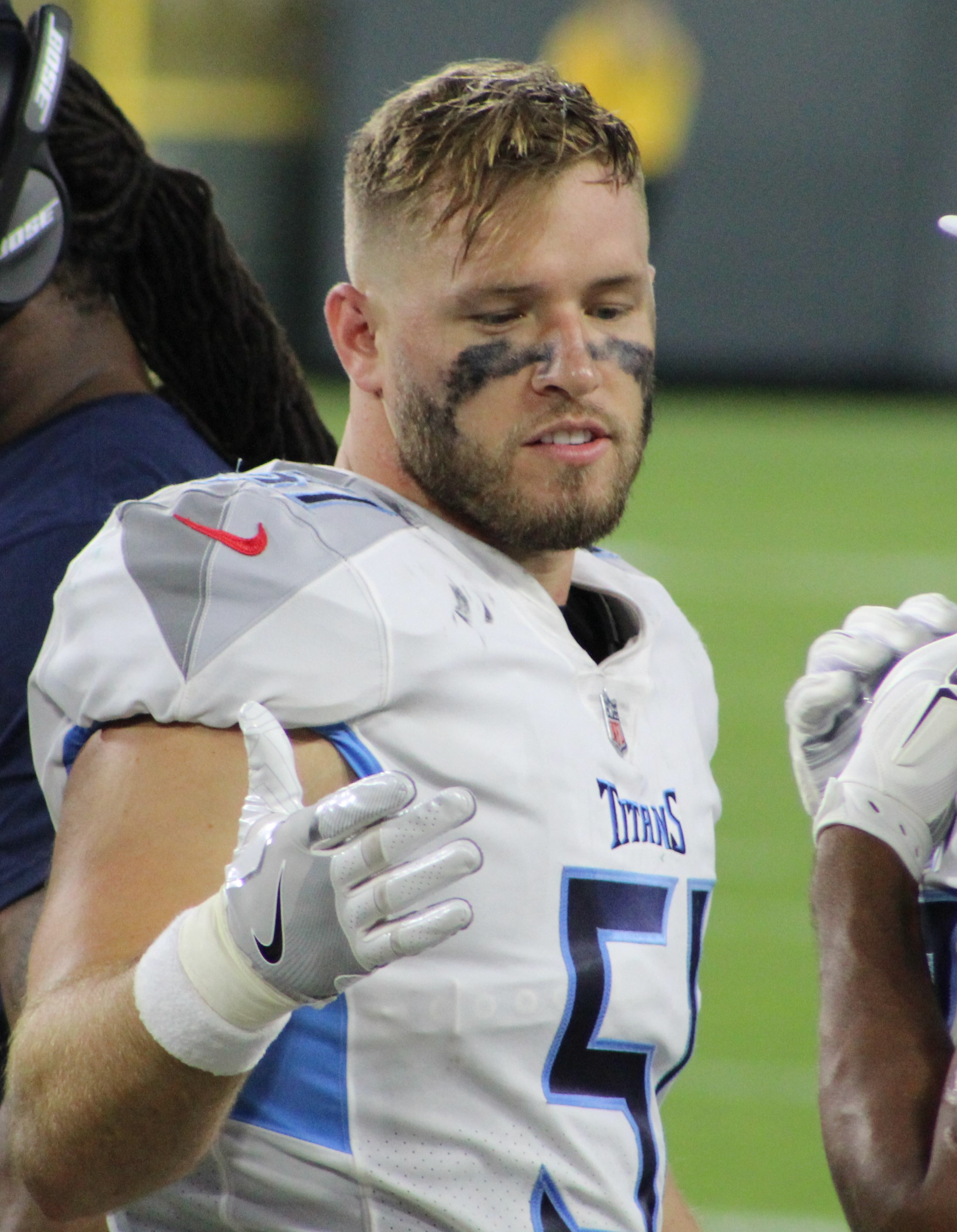 Will Compton, Tennessee Titans at Green Bay Packers (Preseason), August 9, 2018